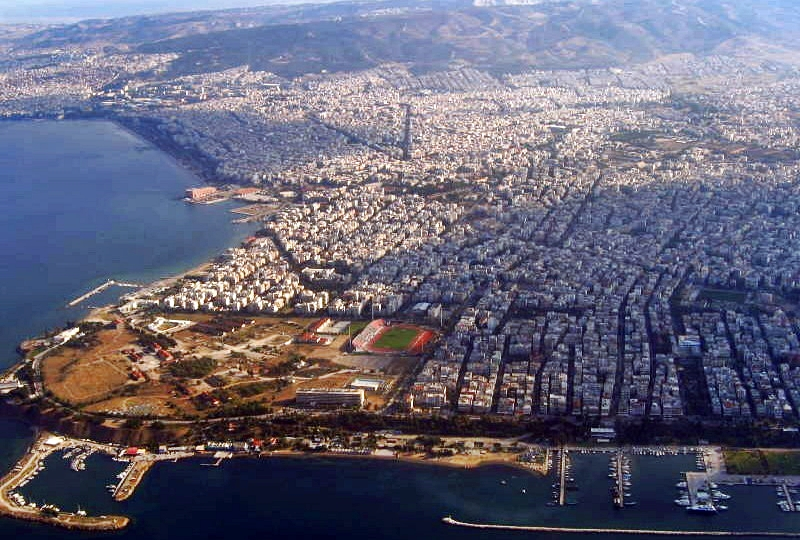 Aerial view of Eastern Thessaloniki and Kalamaria suburb in the south. Photo taken in 2006.